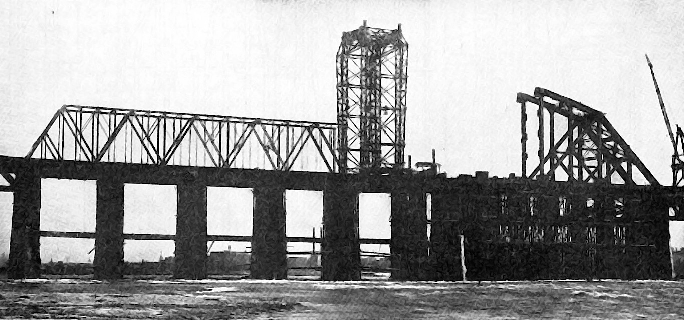 Replacing old 400-ft span with new 644-ft span of Fourteenth Street Bridge, Louisville (Kentucky), 1918